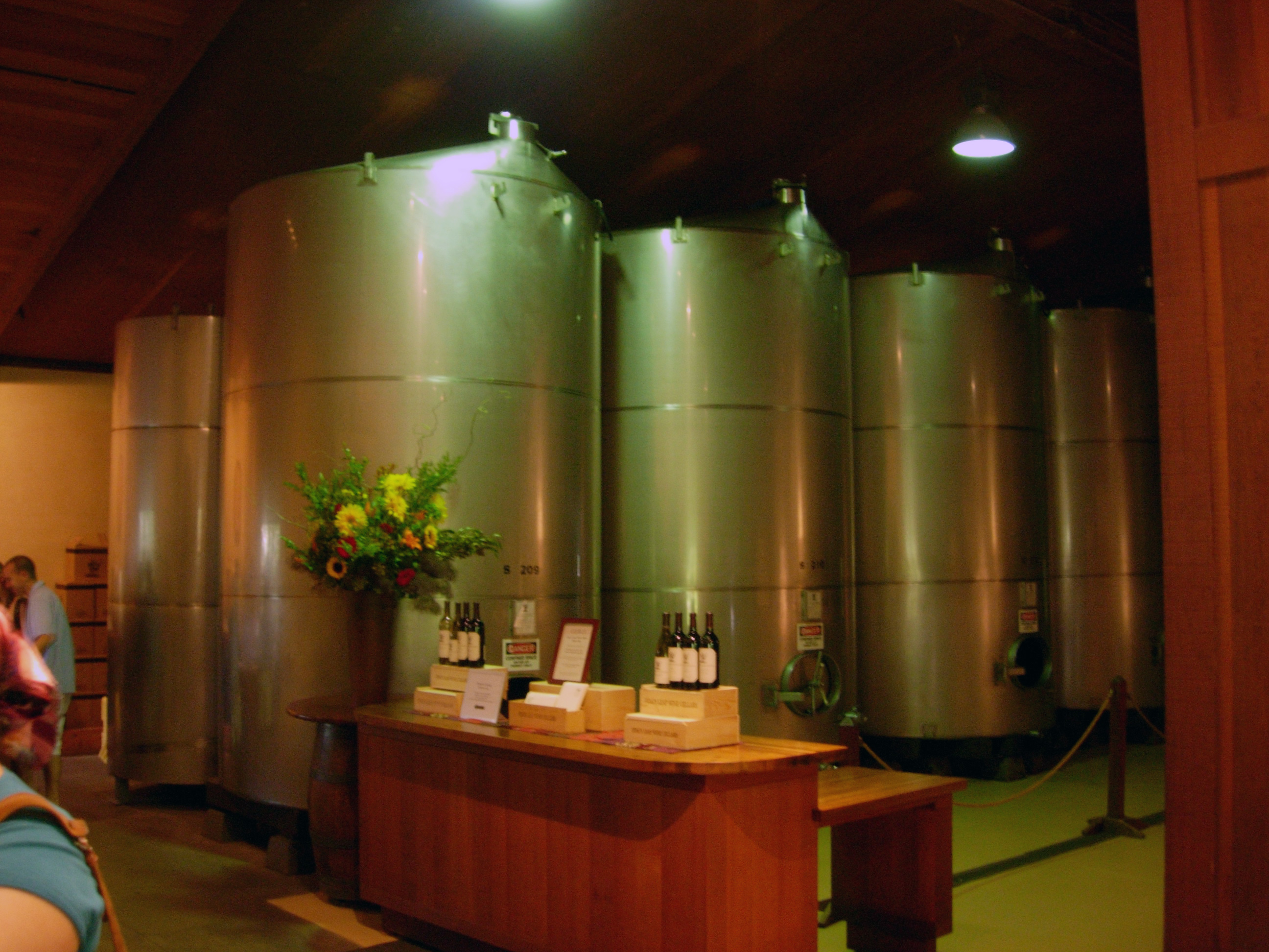 Stainless steel fermenting containers at Stag's Leap Wine Cellar.